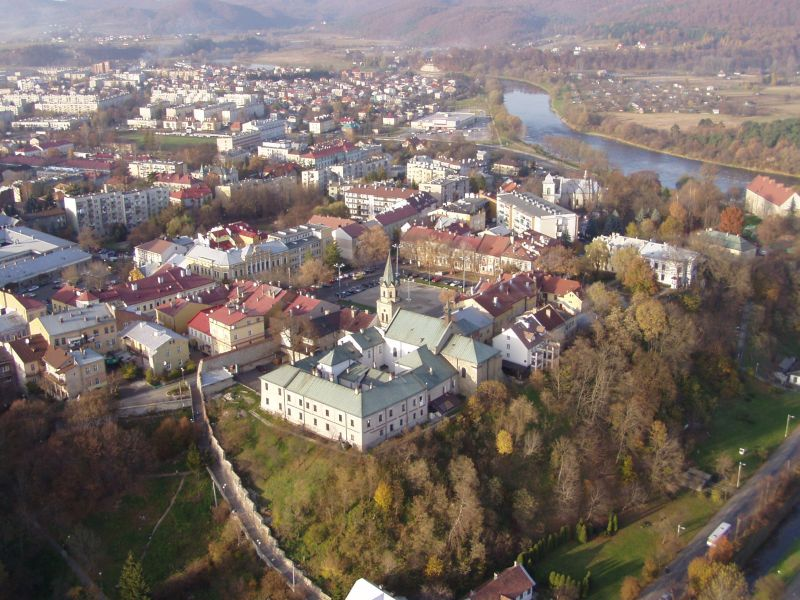 The Sanok Air View , at the first plan, Franciscan Monastry at the Old Market Square, the second plan, Wojtostwo subdistrict and San River.